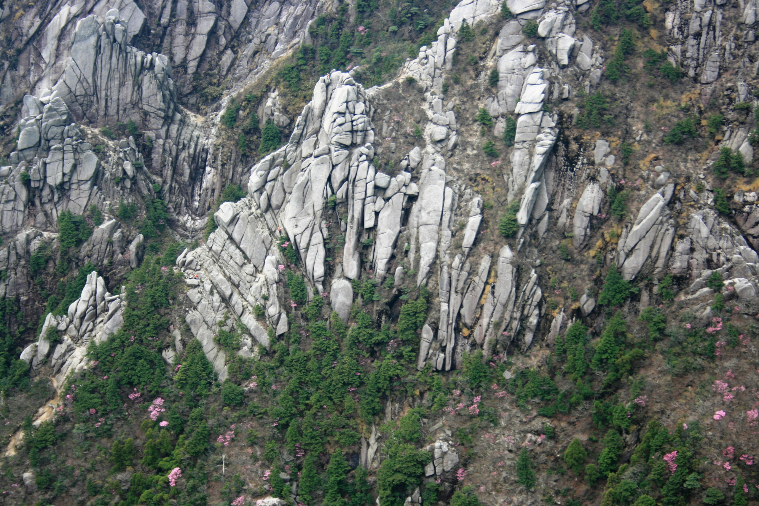 Tonai Wall in Mount Gozaisho